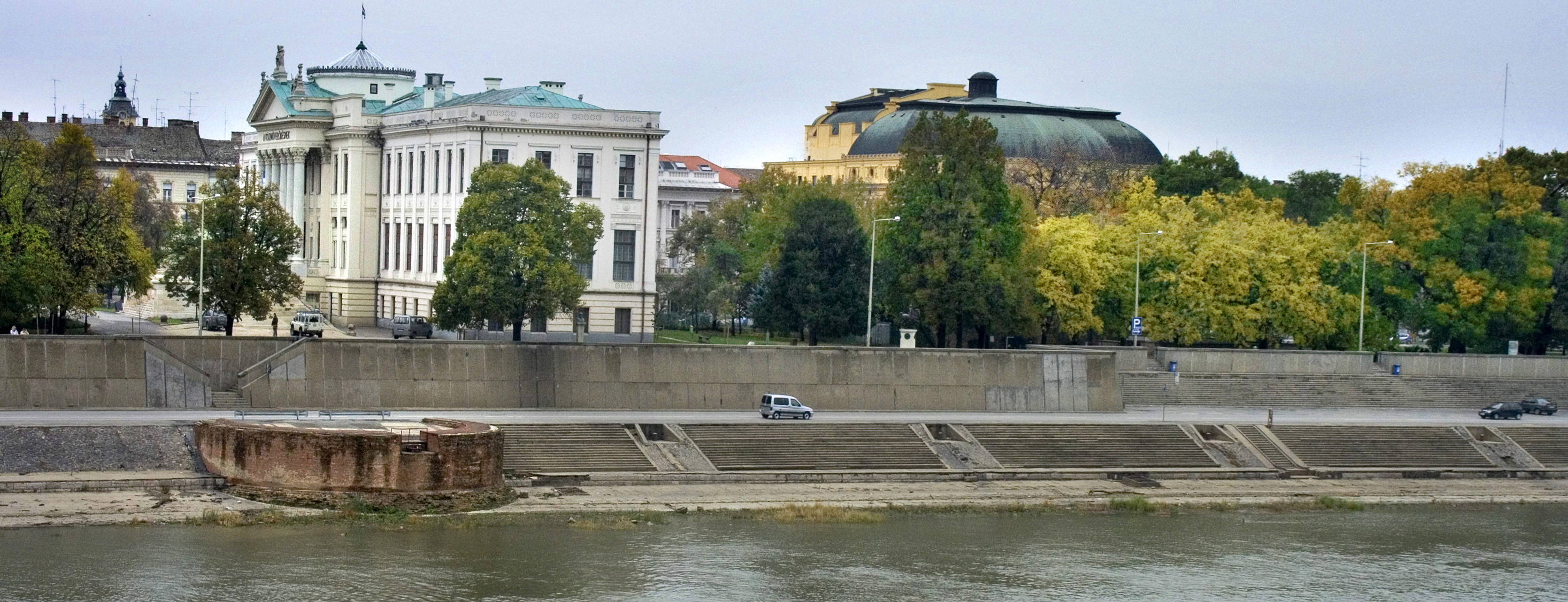 Hungary, Csongrad County, Szeged, Tisza riverside with Móra Museum,and_the National Theatre Szeged - building